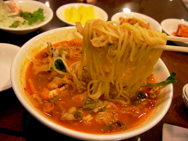 Picture of Jjampong ( 짬뽕 , Champon) Take it by Alfpooh 2007 April 18 at a Chinese restaurant located in Korea.